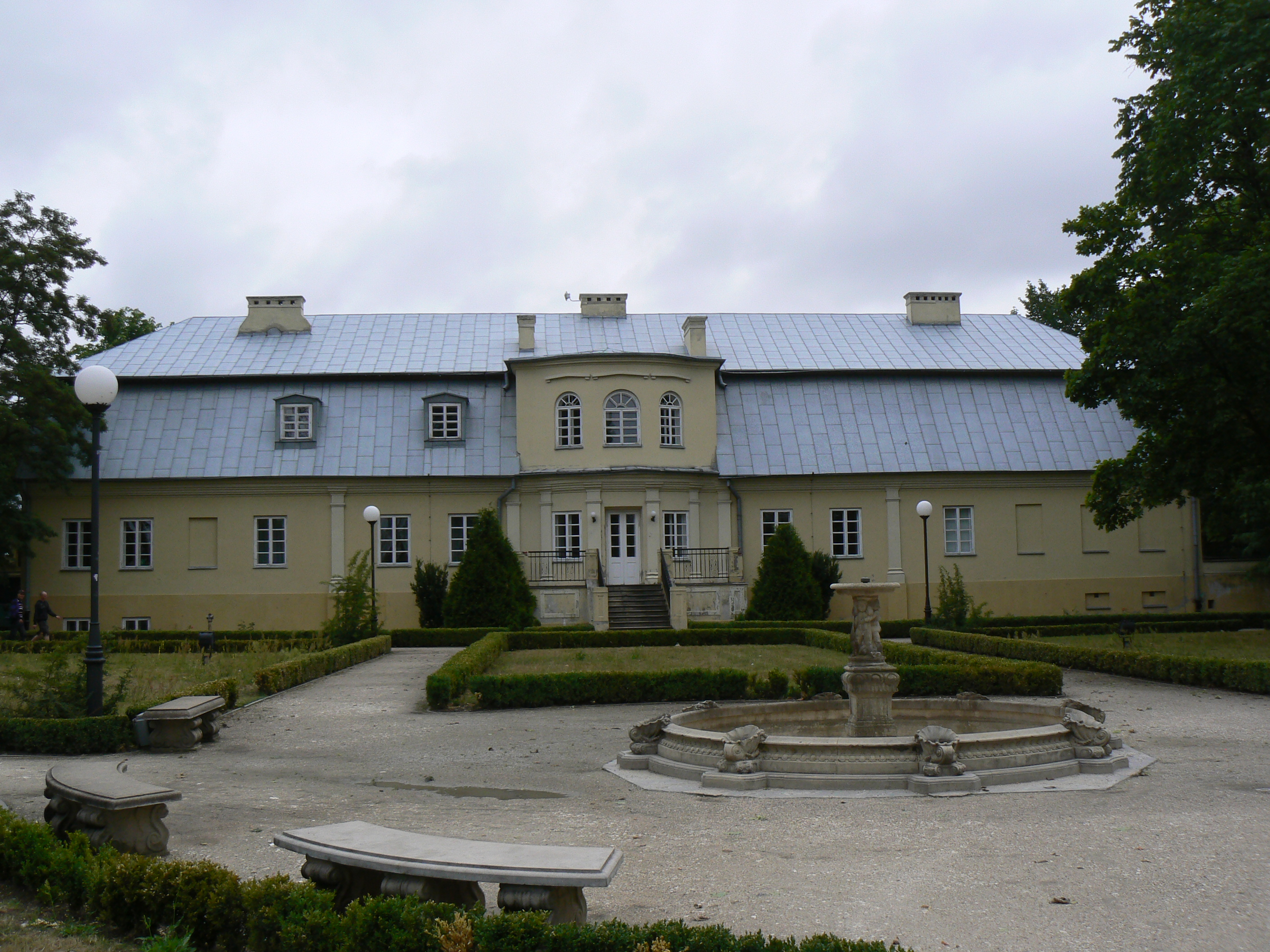 Olszewski's mansion, Bełchatów (west side)